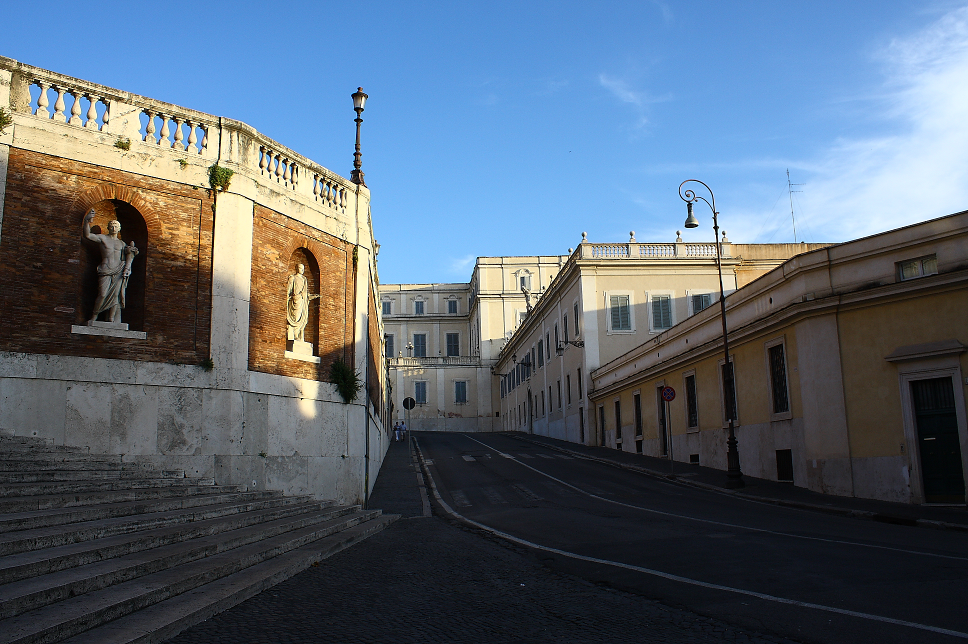 Italy, Rome